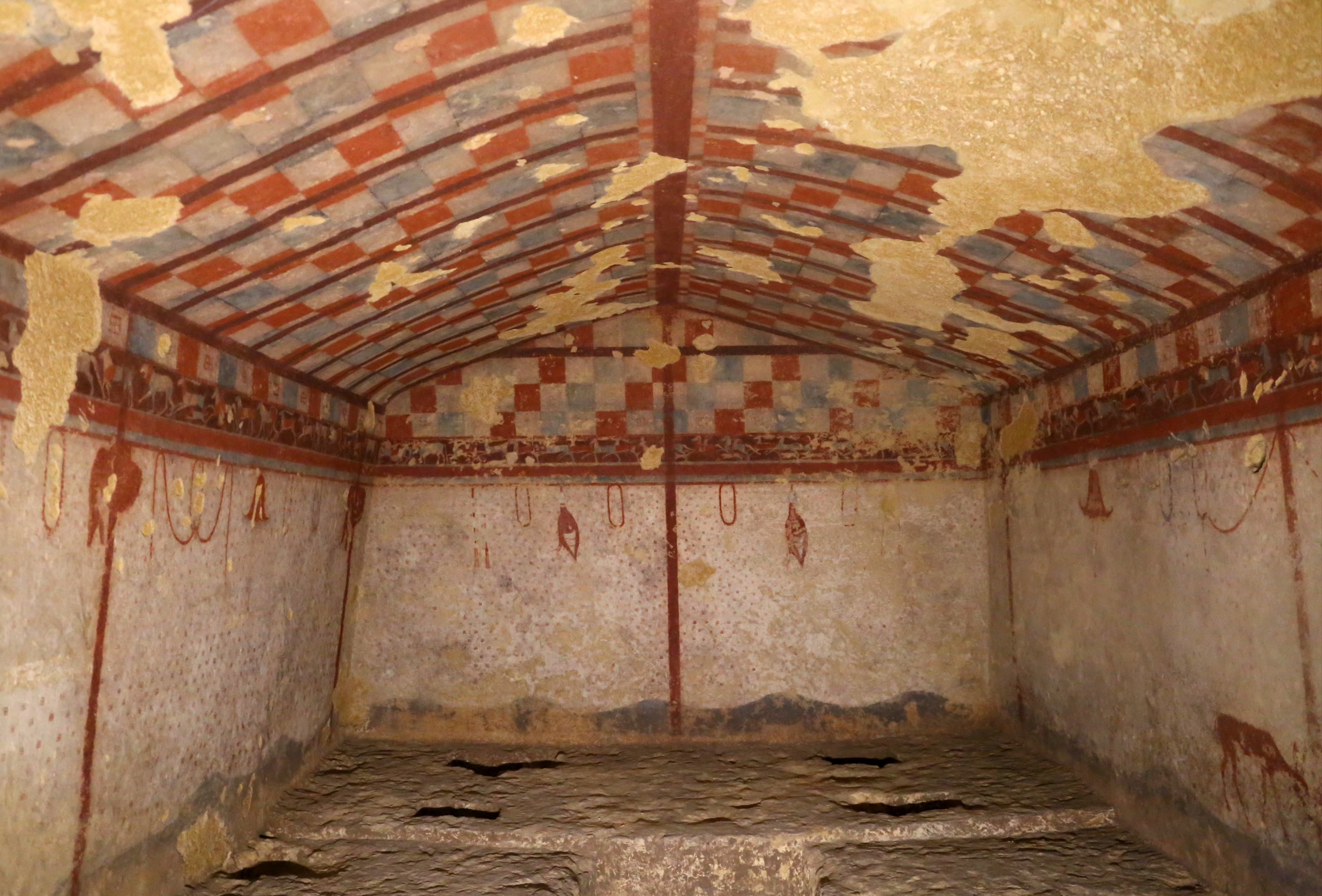 Necropoli dei Monterozzi (Tarquinia)